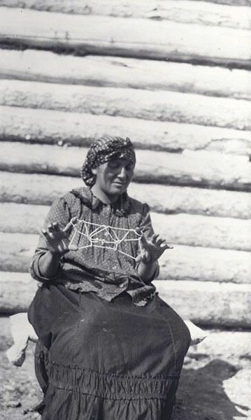 'Mme Hitchen with string bear' ~ (Anishinaabe) ~ Long Lake, Ontario 1916